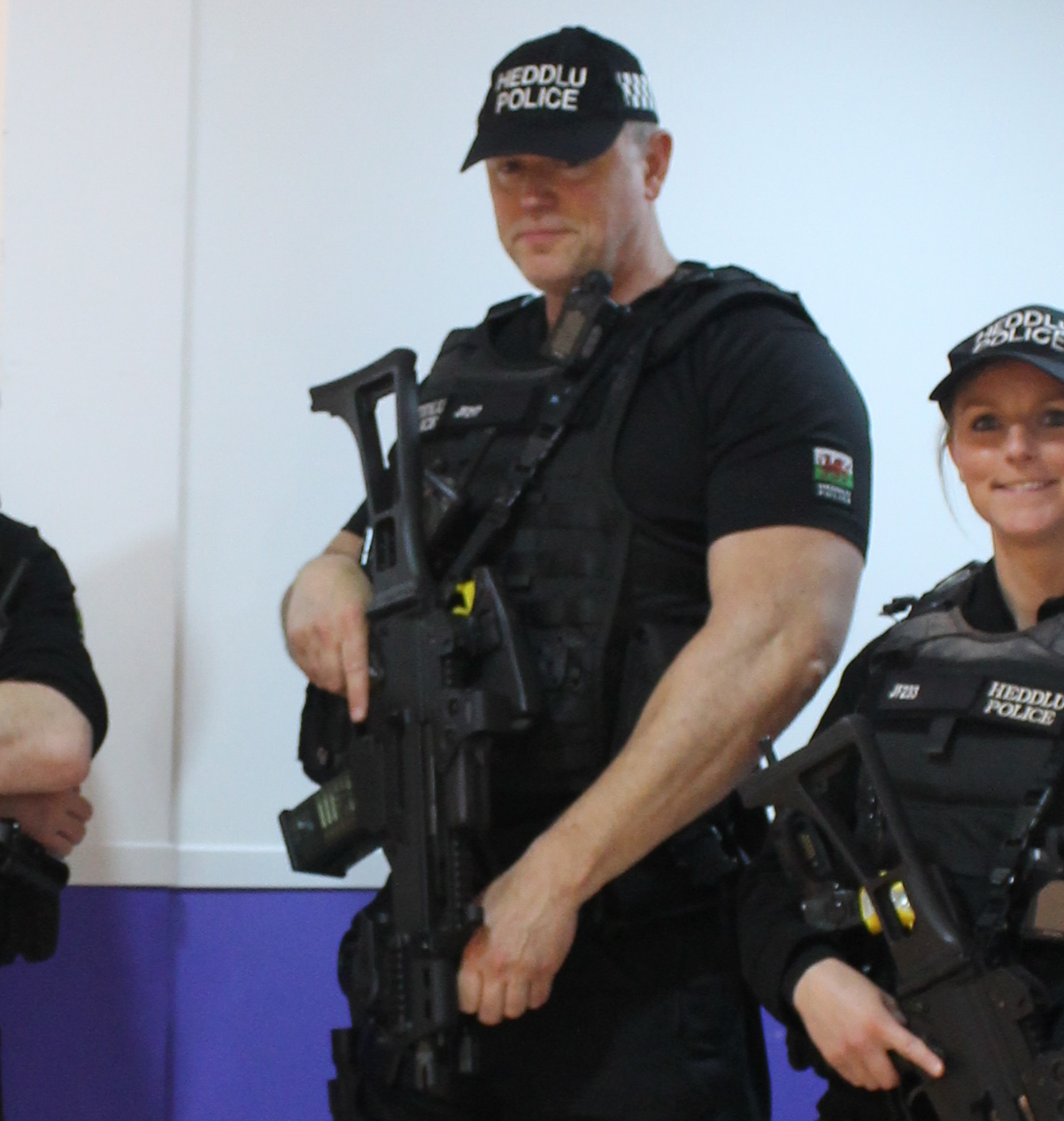 General election counting centre, Llandudno June 2017; for Aberconwy and West Clwyd constituencies. Armed police.